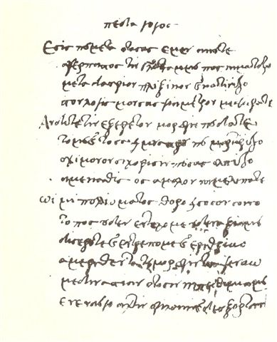 Page of a manuscript of love letters from Cyprus